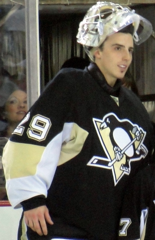 Pittsburgh Penguins goaltender Marc-André Fleury accepts the Aldege "Baz" Bastien Memorial Good Guy Award during a pregame ceremony before a game against the Atlanta Thrashers, April 3, 2010 at Mellon Arena in Pittsburgh, PA. Fleury shared the award with Penguins captain Sidney Crosby.